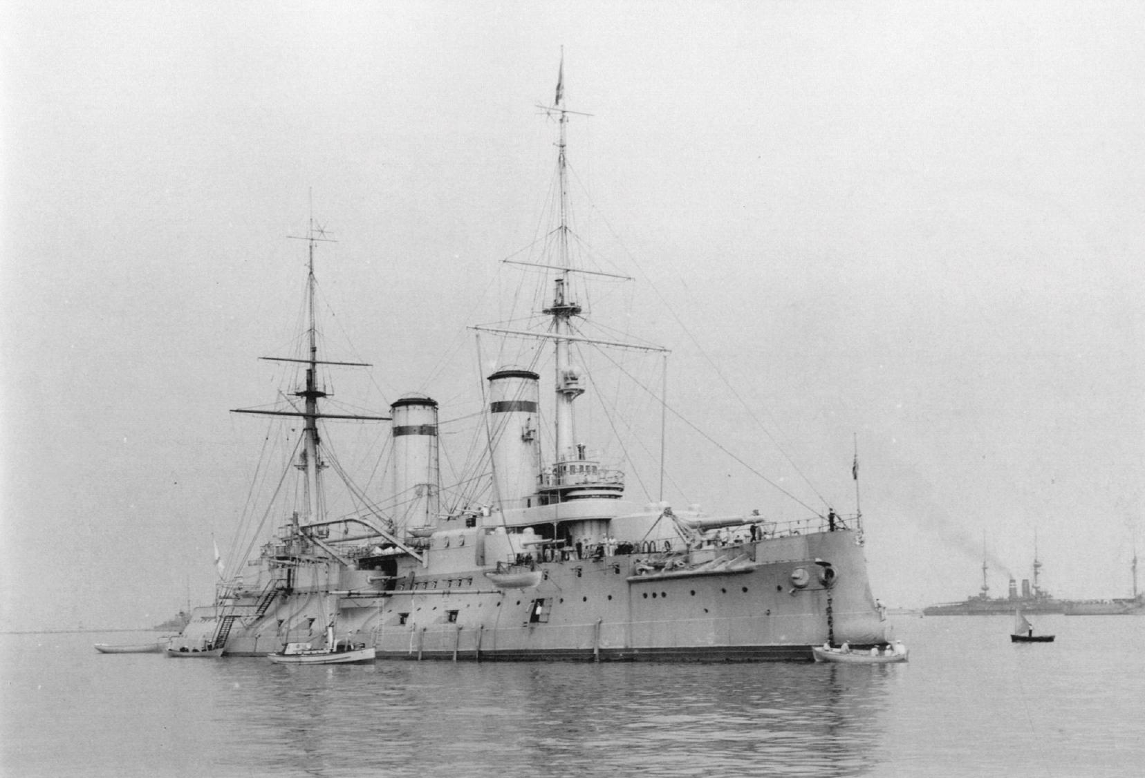 Imperial Russian battleship Tsesarevich in Portland, September 1913.